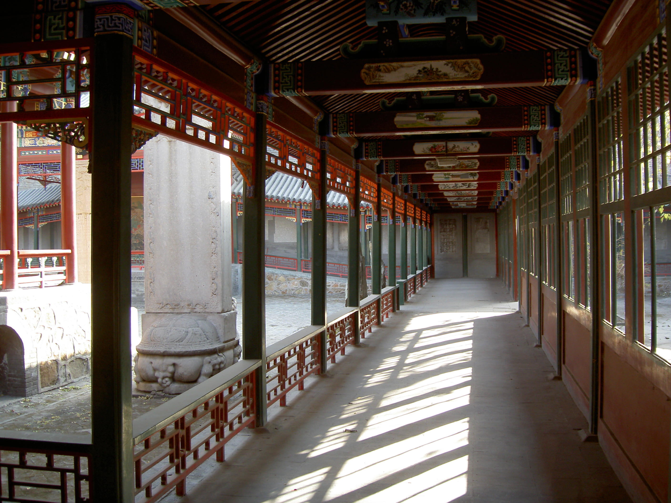 The White Cloud Temple in Beijing